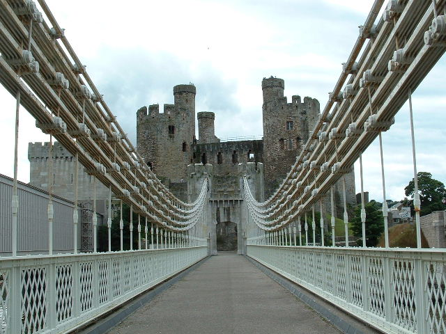 Suspension Bridge. Conwy Suspension Bridge and Castle from the West